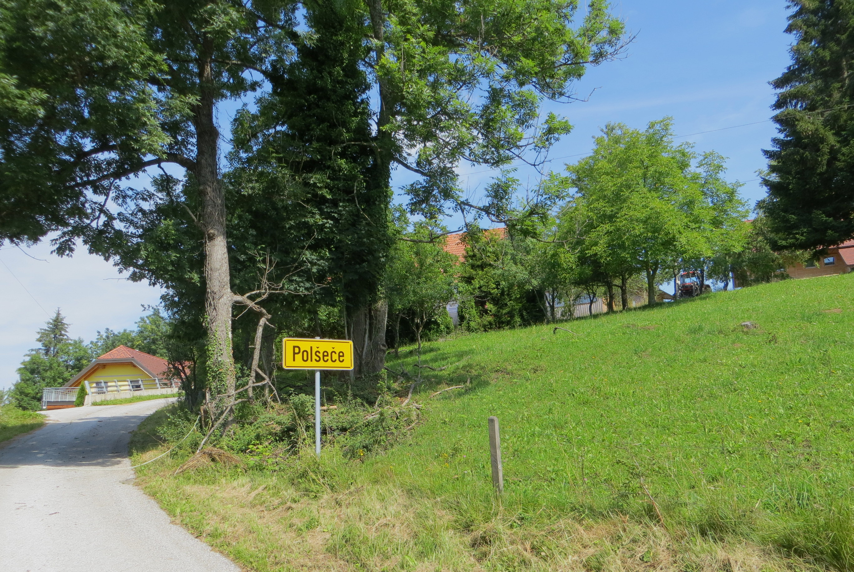 Polšeče, Municipality of Bloke, Slovenia